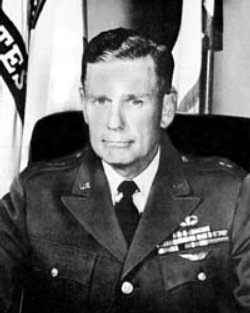 Portrait of General Hamilton H. Howze